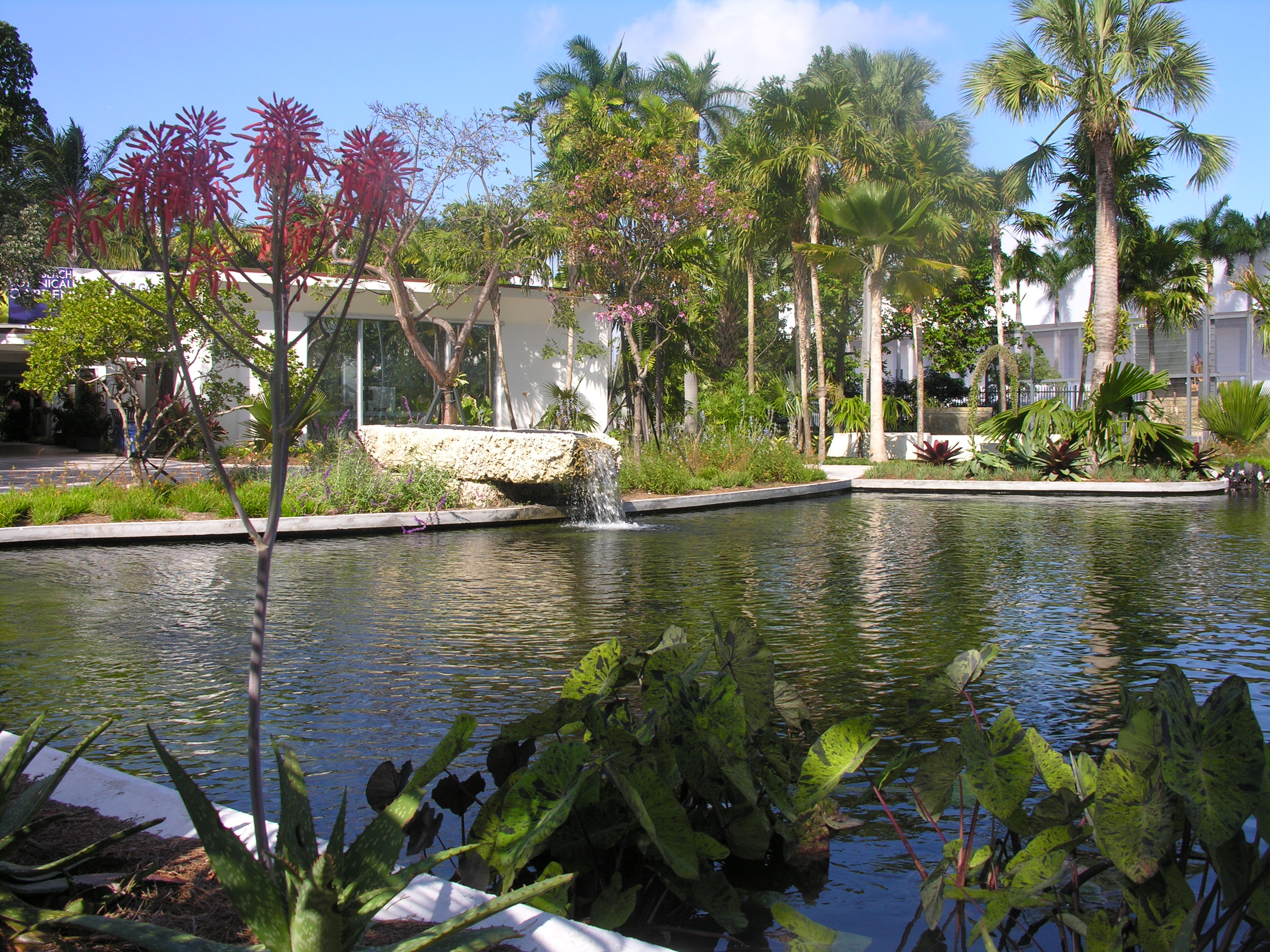 Pond at MBBG